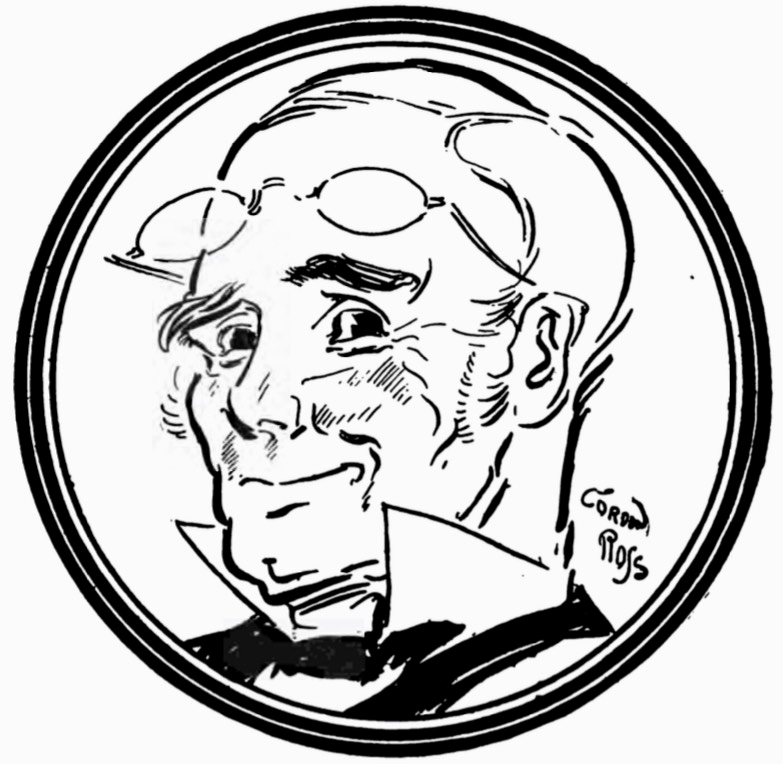 Drawing of the fictional bartender Mr. Dooley